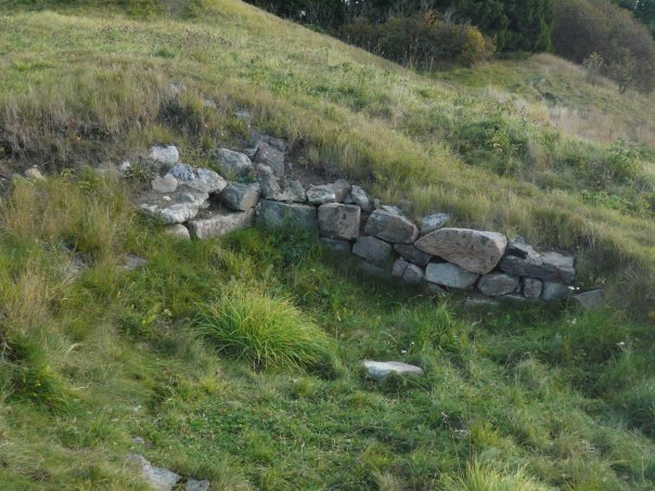 The ruins of bishop's castle in Koroinen, Turku, Finland.